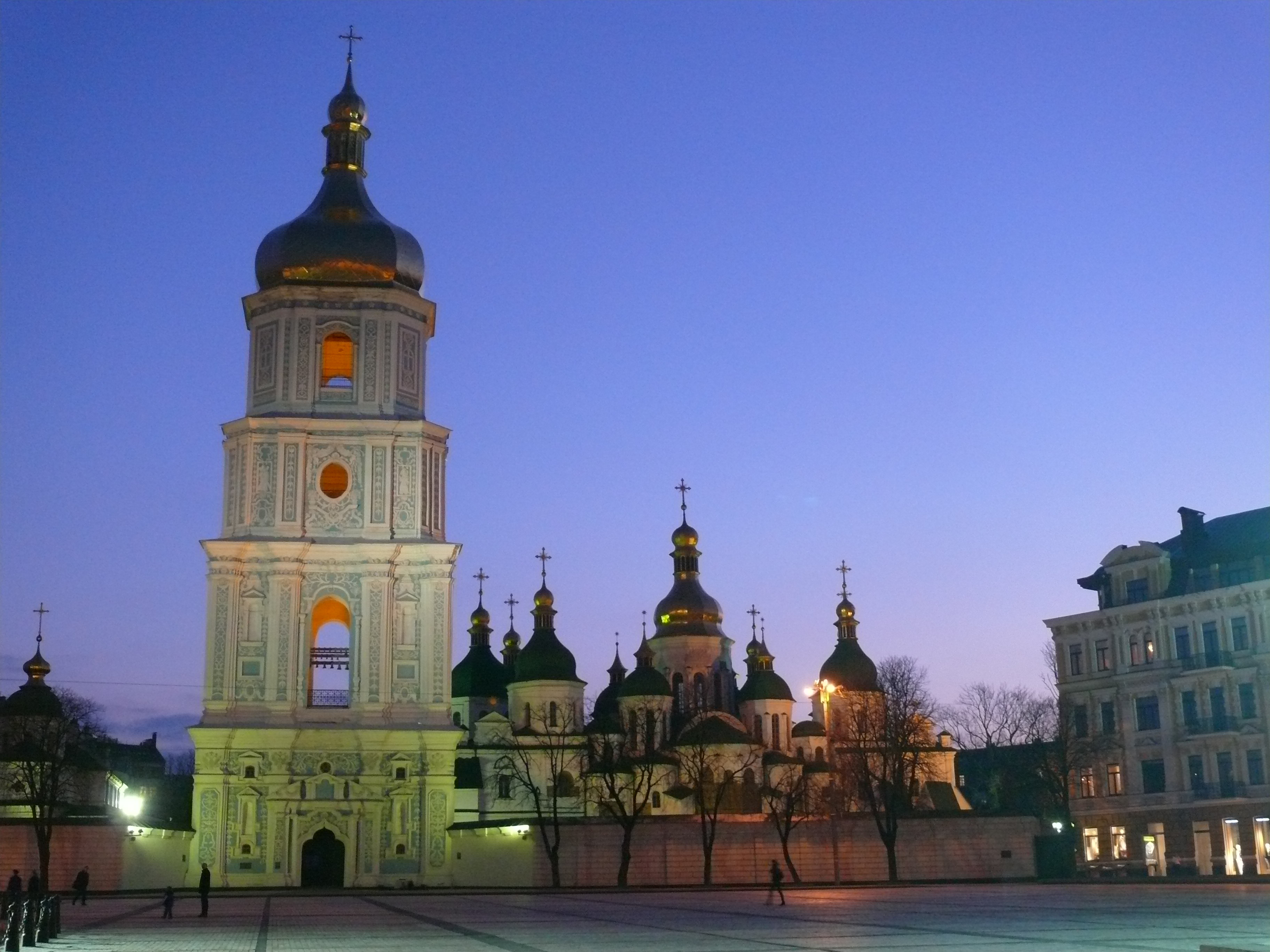 Saint Sophia Cathedral in Kiev